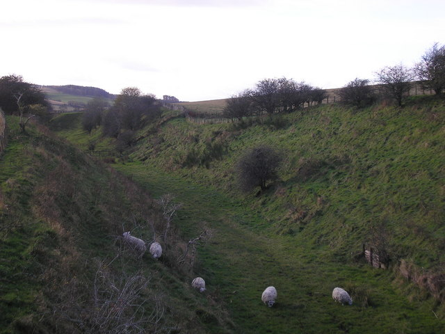 The Waverly Line The view of the dismantled railway line from the road bridge which crosses the former railway line which linked Galashiels with Edinburgh. There are plans to reopen this line and if so the sheep will be replaced by trains.